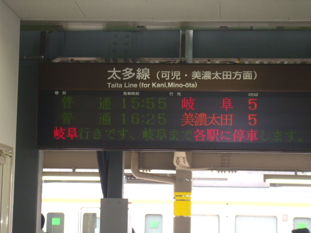 JR Tajimi-Station Denko Keiji-ban